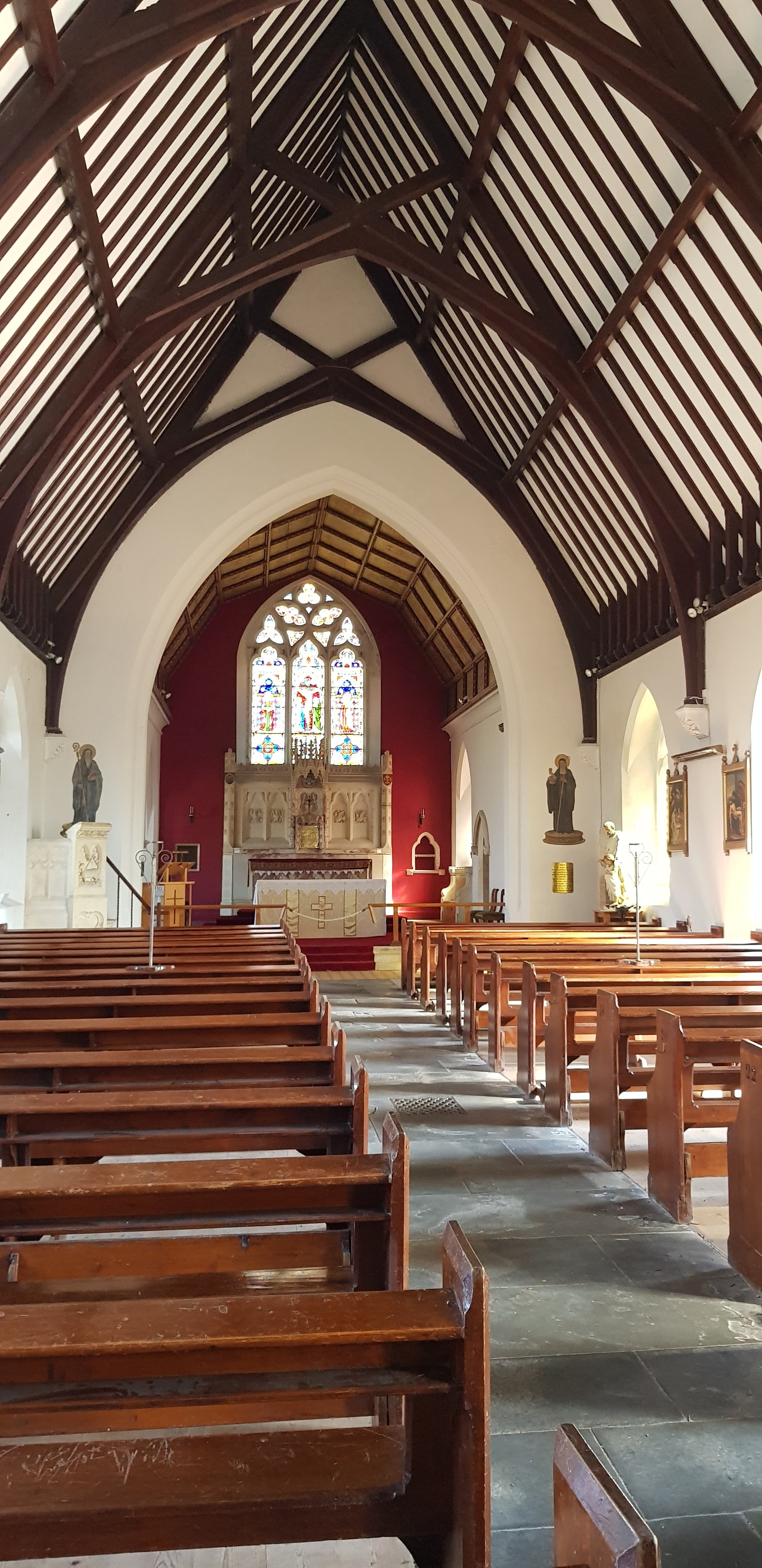 The view of the interior of the church from the nave towards the altar